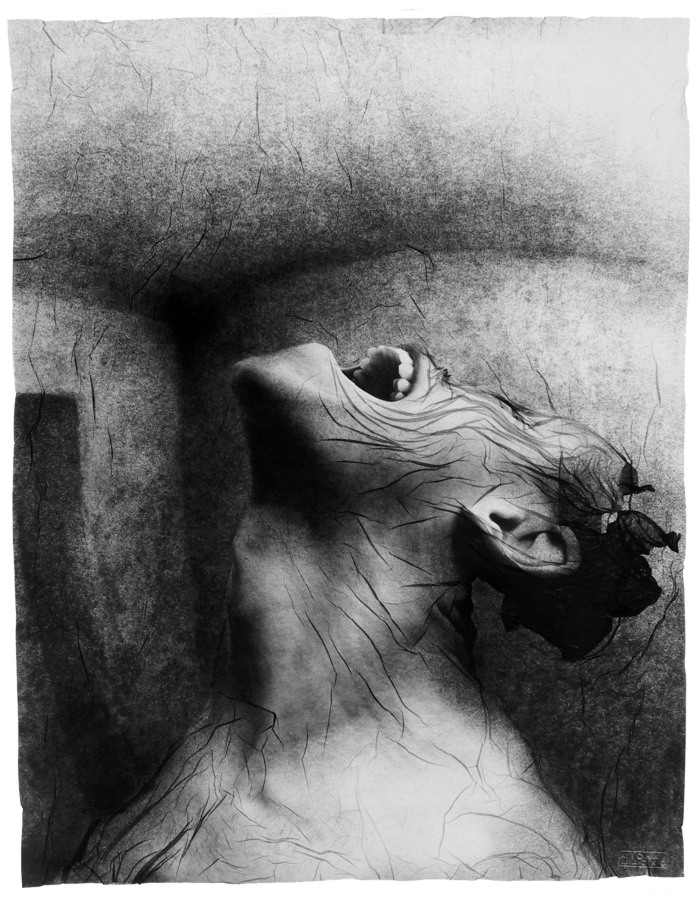 Photograph from Michal Macků